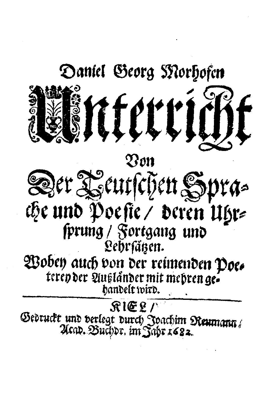 Daniel Georg Morhofen Unterricht Von Der Teutschen Sprache und Poesie, deren Uhrsprung, Fortgang und Lehrsätzen: Wobey auch von der reimenden Poeterey der Außländer mit mehren gehandelt wird (Kiel: Reumann, 1682).